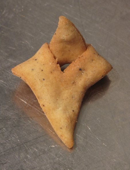 Fattigmann